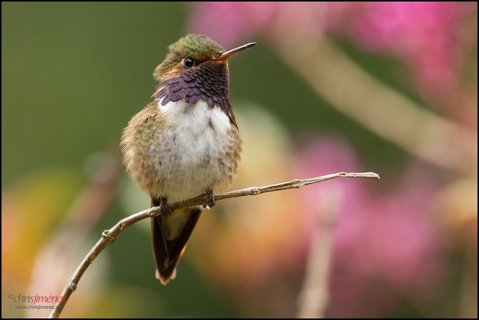 Volcano Hummingbird (Selasphorus flammula) male perched on a branch at the highlands of Costa Rica